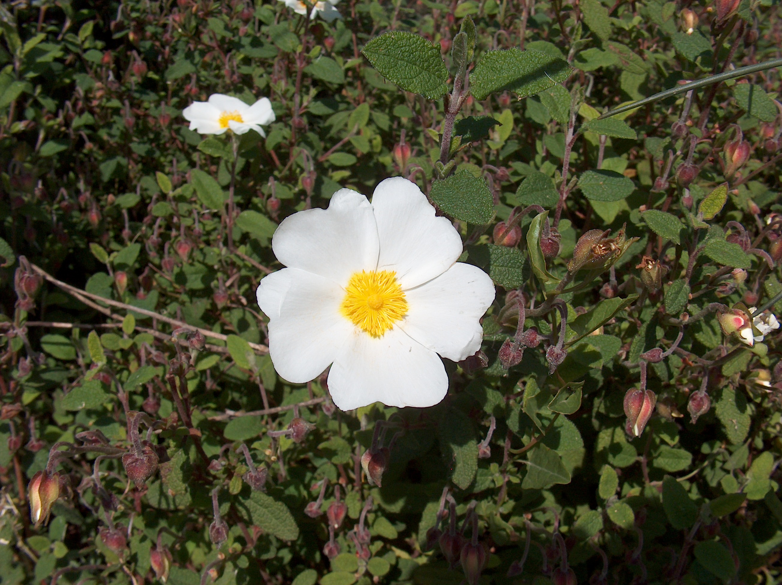 Flower of Cistus_salviifolius (Place: Professional Institute of Agriculture and Environment "Cettolini" Villacidro, Sardinia, Italy).